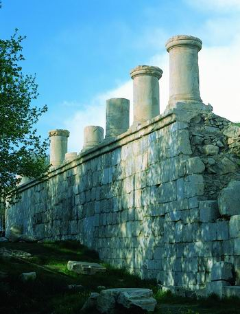 The Anahita Temple (معبد آناهیتا در کنگاور or پرستشگاه‌ ناهید در کنگاور) is the name of one of two archaeological sites in Iran popularly thought to have been attributed to the ancient deity Anahita.